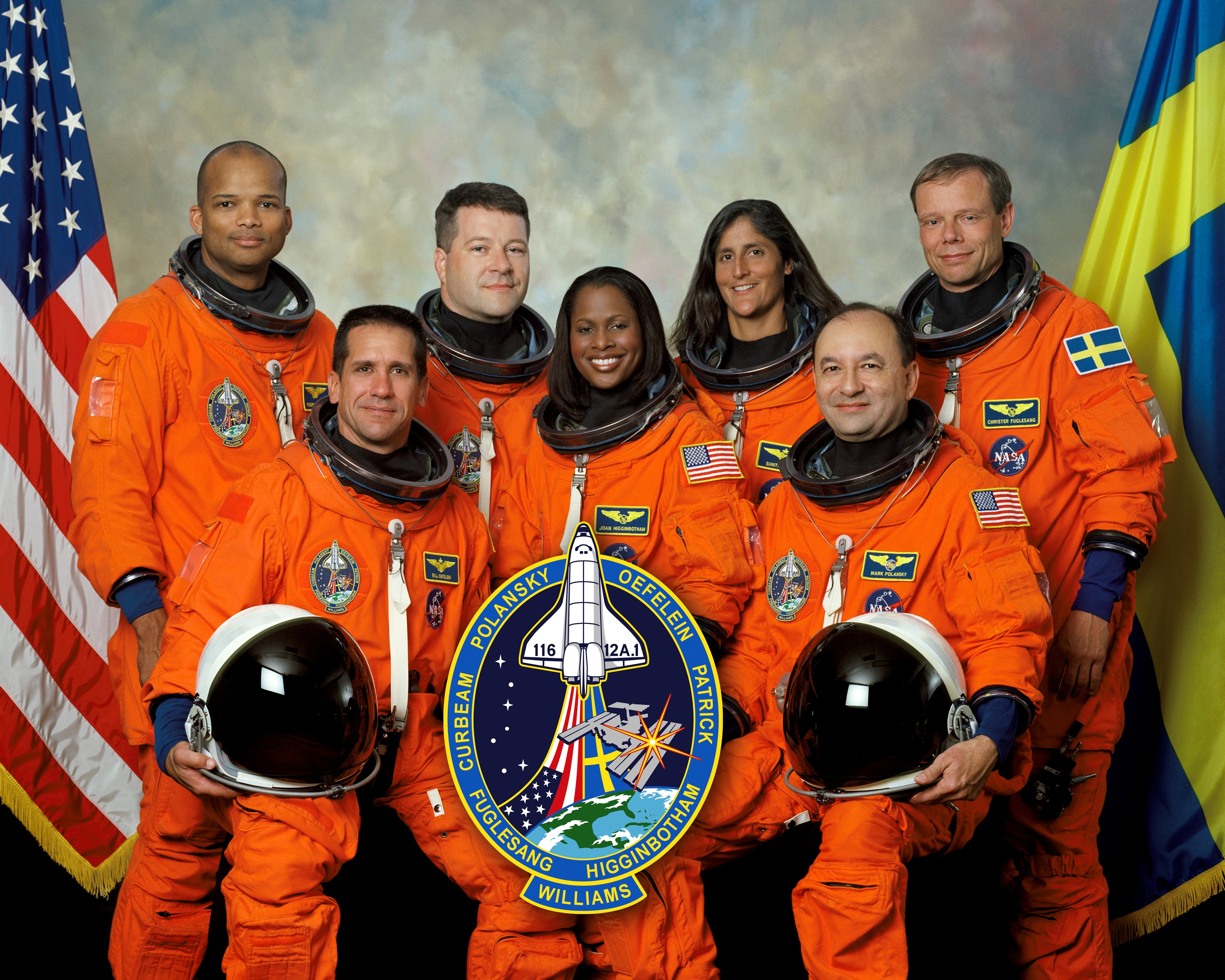 These seven astronauts take a break from training to pose for the STS-116 crew portrait. Scheduled to launch aboard the Space Shuttle Discovery are, front row (from the left), astronauts William A. Oefelein, pilot; Joan E. Higginbotham, mission specialist; and Mark L. Polansky, commander. On the back row (from the left) are astronauts Robert L. Curbeam, Nicholas J.M. Patrick, Sunita L. Williams and the European Space Agency's Christer Fuglesang, all mission specialists. Williams will join Expedition 14 in progress to serve as a flight engineer aboard the International Space Station. The crewmembers are attired in training versions of their shuttle launch and entry suits.